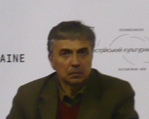 Kostyantyn Sigov